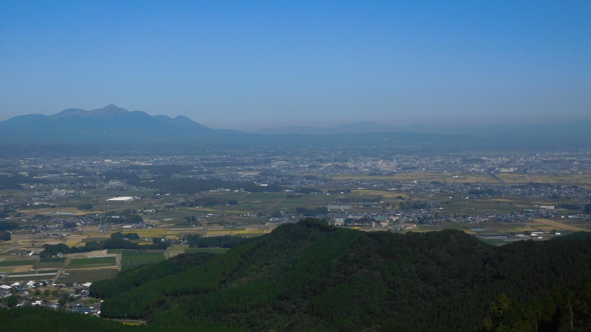 Viewing of Miyakonojo City from Kanemi-dake (Miyazaki Prefecture, Japan)